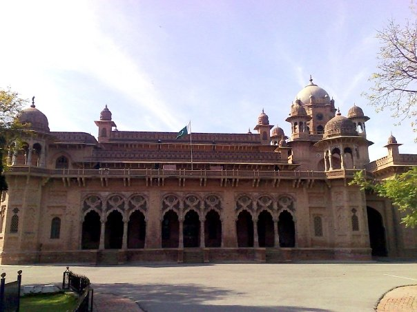 Aitchison College — in Lahore, Pakistan. I took this photo myself as i am a student of aitchison college. I give permission that anyone can use this image in any way he wants. Summary I took this photo myself as i am a student of aitchison college. I give permission that anyone can use this image in any way he wants.